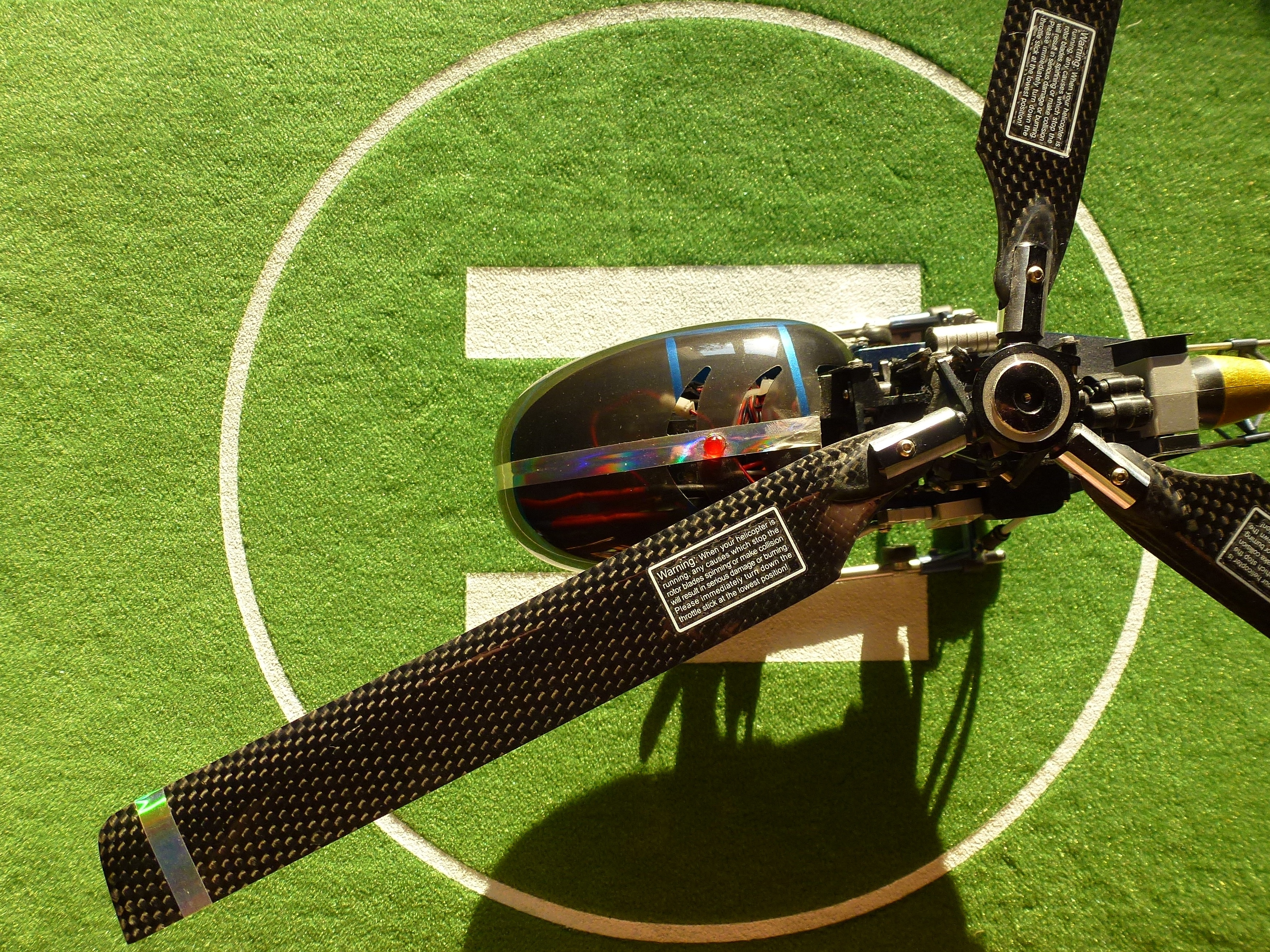 Carbon made blade for RC-helicopters